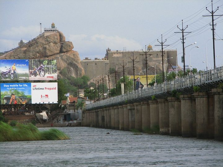 rockfort